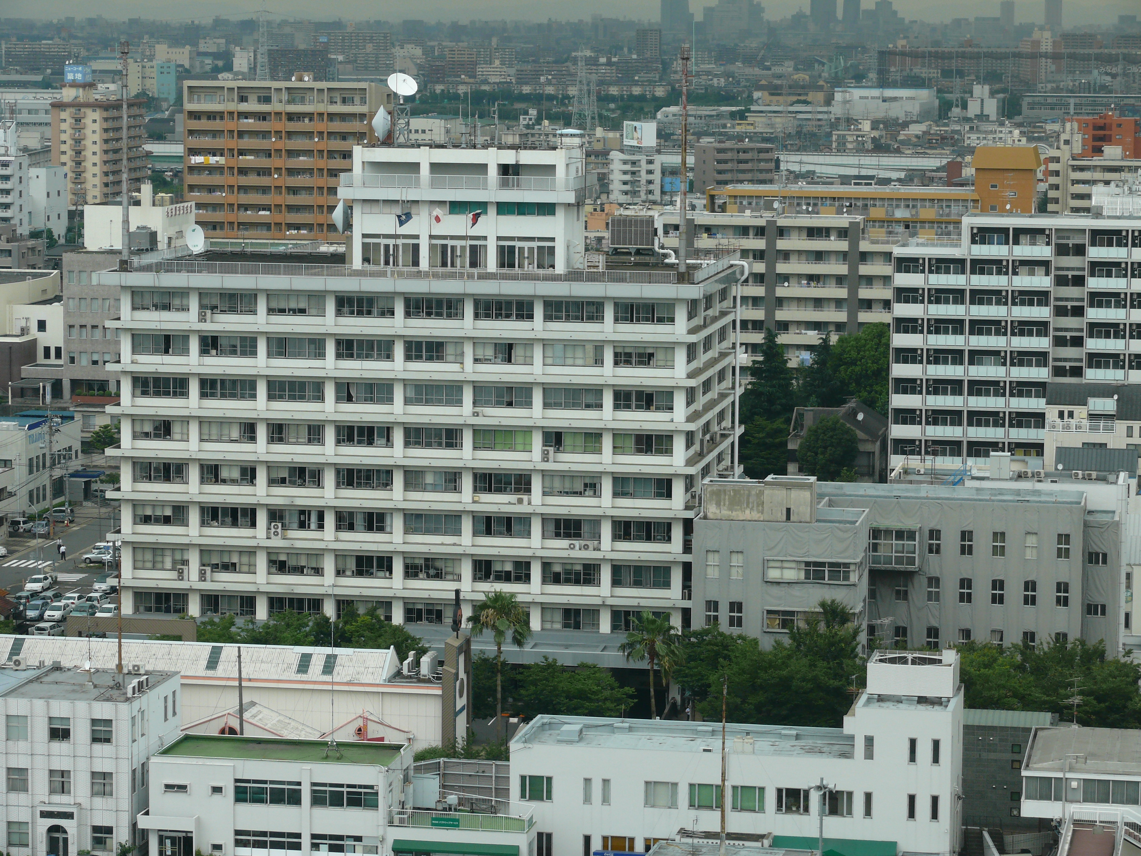 Nagoya Port Congruent Government Building. takes a photograph at the Observatory of Nagoya Port bldg.